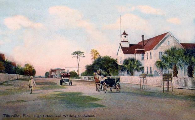 High School and Washington Avenue, Titusville, FL; from a c. 1910 postcard.